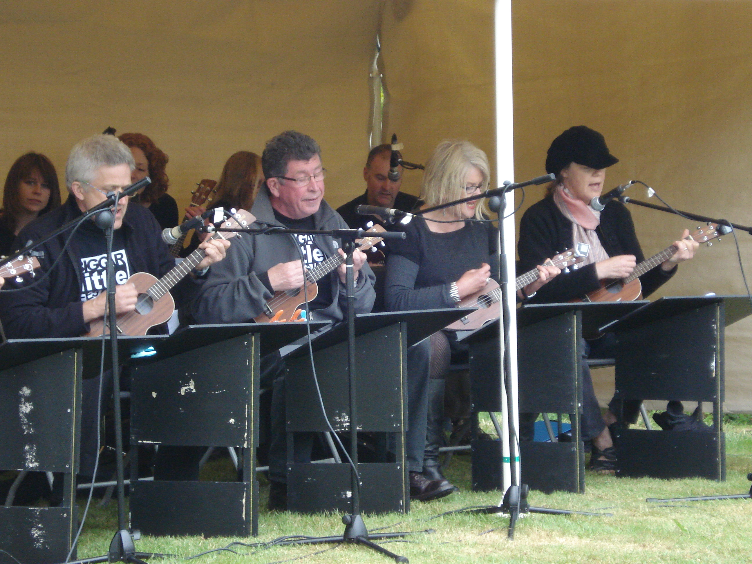 The Biggar Ukulele Ensemble “The Dukes of Ukes” at the Biggar Little Festival Persilands Spring Music Festival 2010.